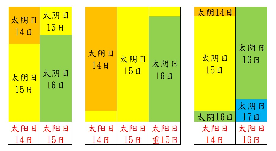 The picture shows why there are chad days and lhag days in the Tibetan calendar.